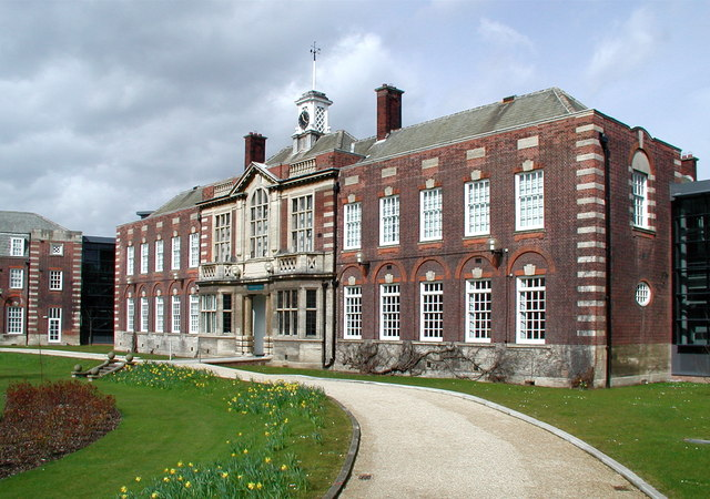 Hull University The Derwent Building, part of the Business School at the University of Hull.